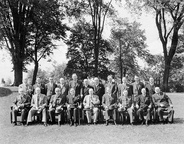 Rt. Hon. W.L. Mackenzie King and members of the Cabinet [Front, L-R]: Hons. Louis St. Laurent, J.A. MacKinnon, C.D. Howe, Ian Mackenzie, Rt. Hon. W.L. Mackenzie King, Hons. J.L. Ilsley, J.G. Gardiner, C.W.G. Gibson, Humphrey Mitchell. [Rear, L-R]: Hons. J.J. McCann, Paul Martin, Joseph Jean, J.A. Glen, Brooke Claxton, Alphonse Fournier, Ernest Bertrand, A.G.L. McNaughton, Lionel Chevrier, D.C. Abbott, D.L. MacLaren